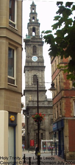 Holy Trinity, Boar Lane, Leeds City Centre. Holy Trinity is a city centre church which is difficult to photograph. You can't get far enough away to include the spire with the rest of the church - so here is just the spire, from Trevelyan Square.